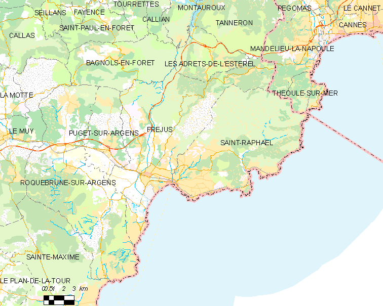 Map of French municipality Fréjus